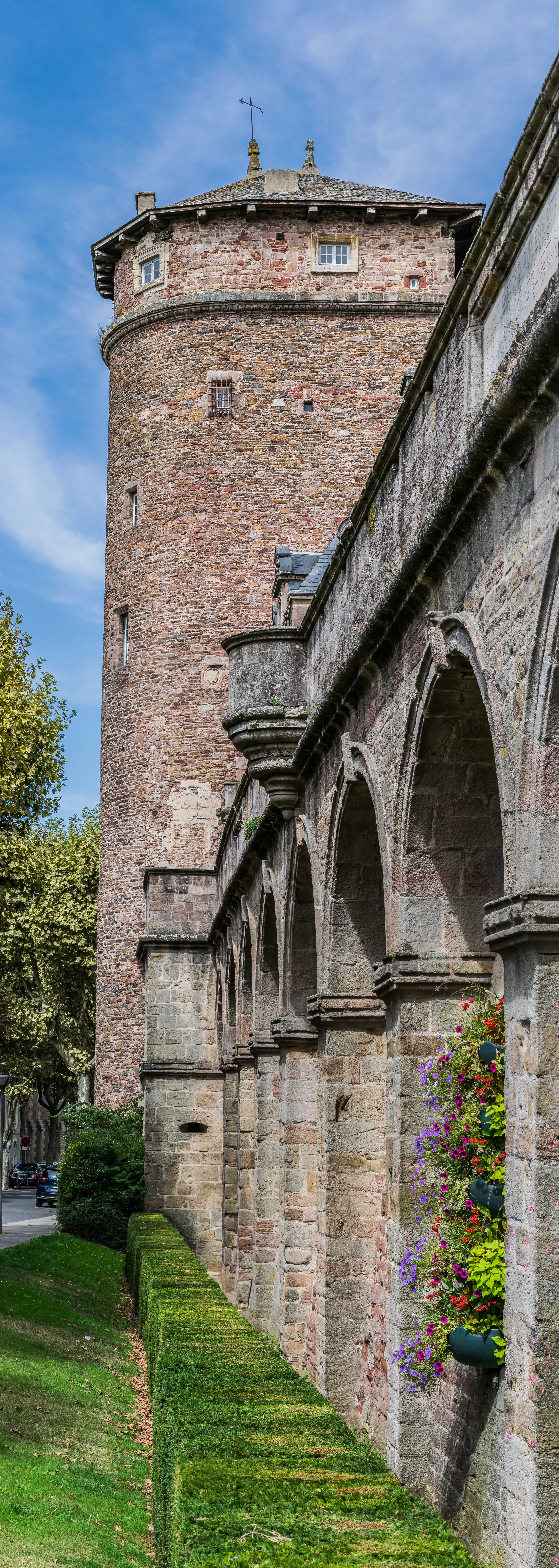 Tour Corbières – part of the battlements of the former bishopric in Rodez, Aveyron, France . NOTE: This image is a panorama consisting of 5 frames that were merged or stitched in Adobe Lightroom. As a result, this image necessarily underwent some form of digital manipulation. These manipulations may include blending, blurring, cloning, and colour and perspective adjustments. As a result of these adjustments, the image content may be slightly different from reality at the points where multiple images were combined. This manipulation is often required due to lens, perspective, and parallax distortions.